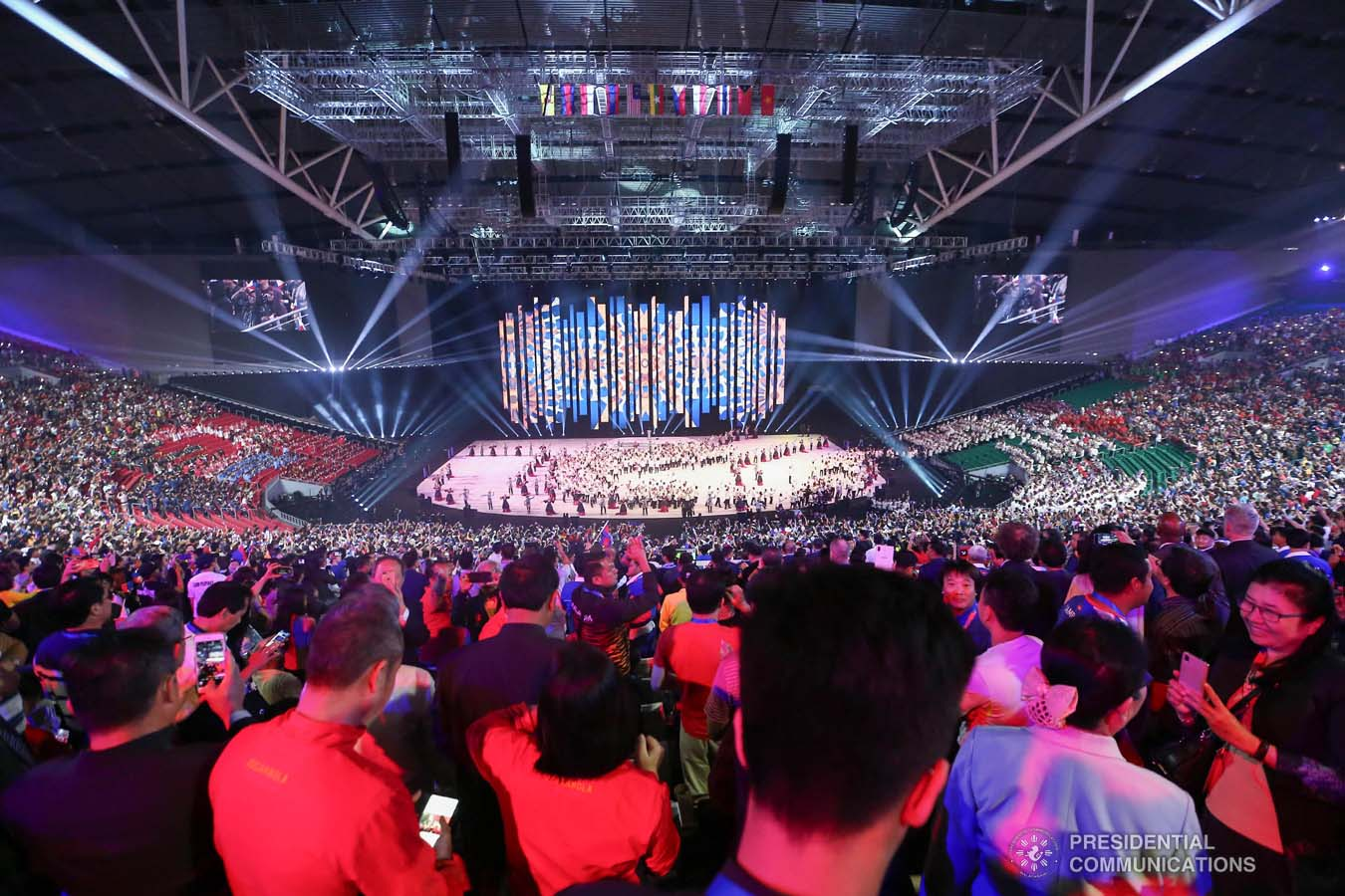 Filipino athletes make their entrance as they join the parade during the opening ceremony of the 30th Southeast Asian (SEA) Games at the Philippine Arena in Bocaue, Bulacan on November 30, 2019. REY BANIQUET/PRESIDENTIAL PHOTO